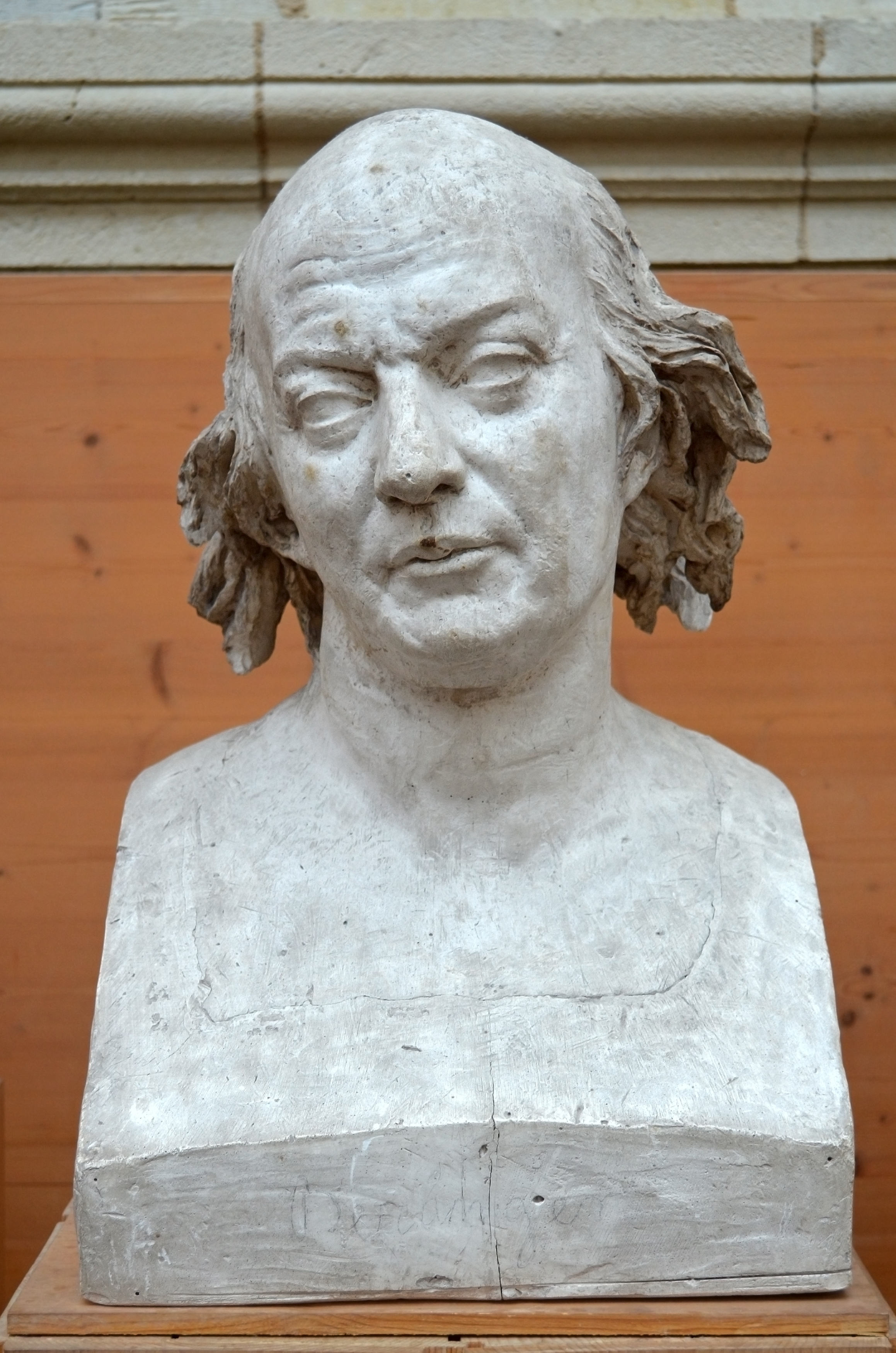 Bust of Pierre-Jean de Béranger by french sculptor David d'Angers (1829). Exhibited in David d'Angers gallery, Angers, France